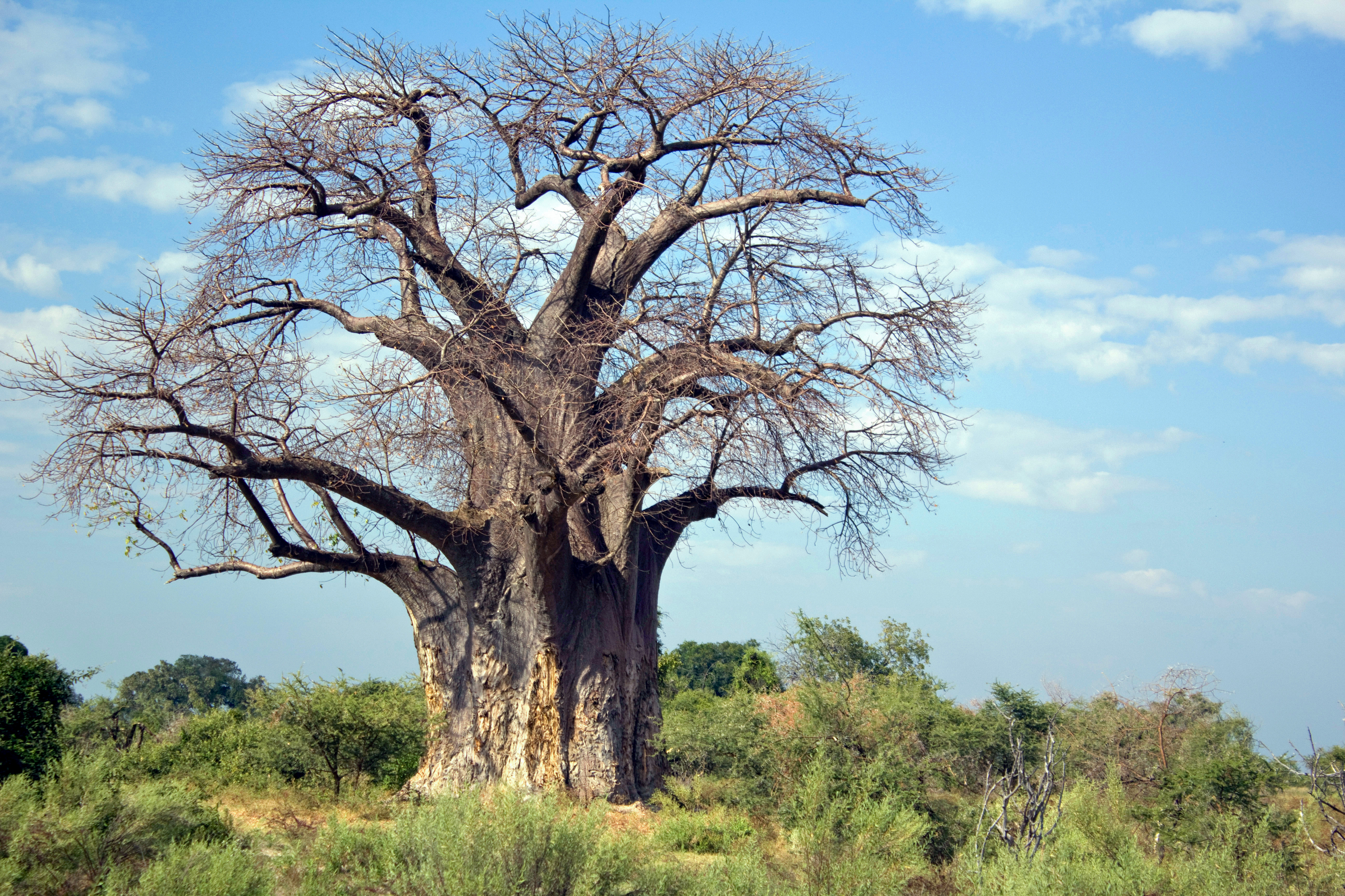 Baobab